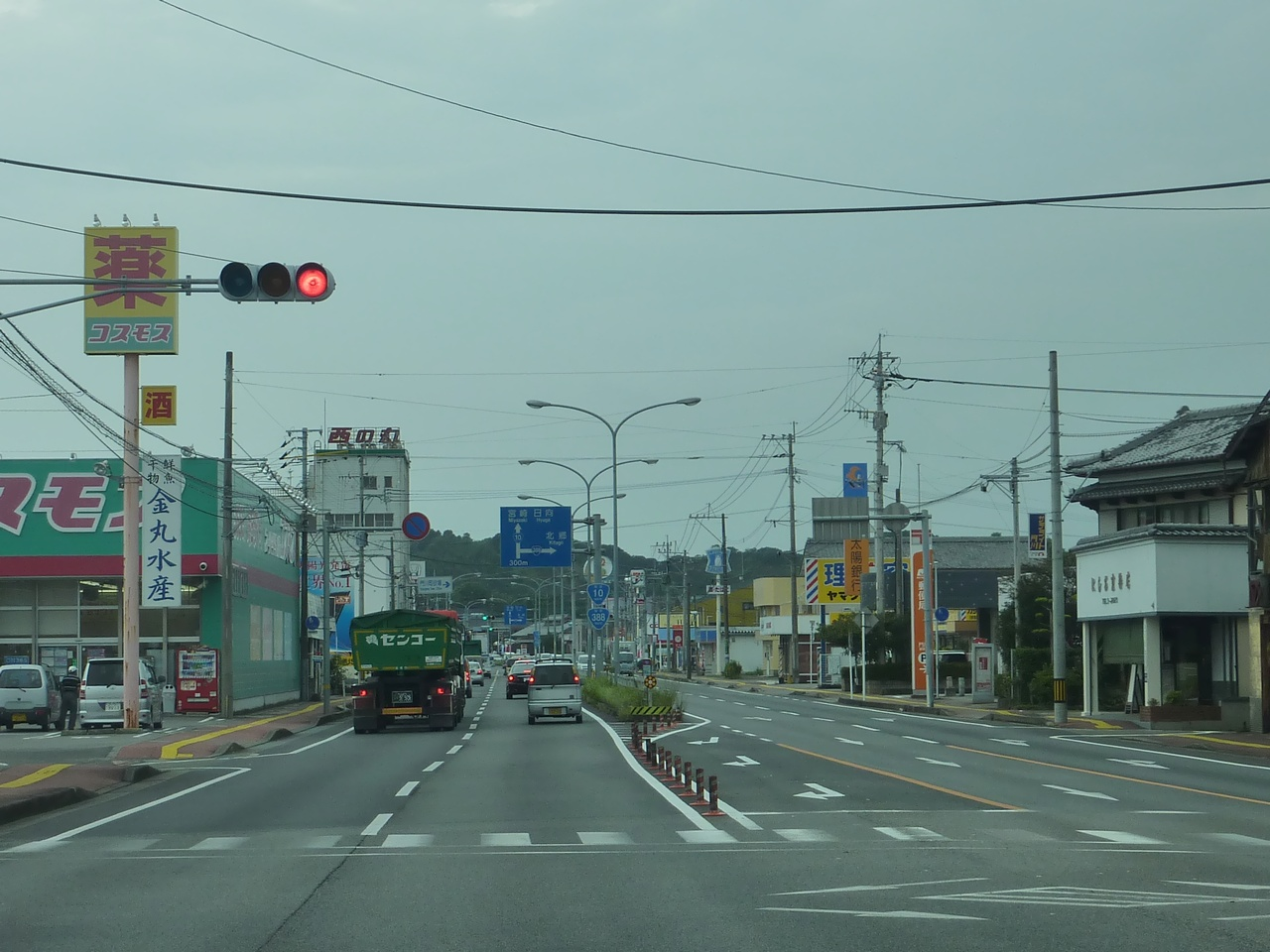 The National Route 10 in Kadogawa Town, Miyazaki Prefecture, Japan.